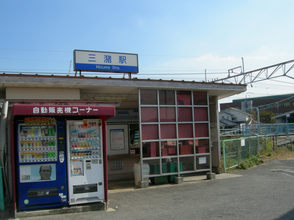 Mizuma Station on Nishitetsu Tenjin Omuta Line, in Kurume, Fukuoka, Japan